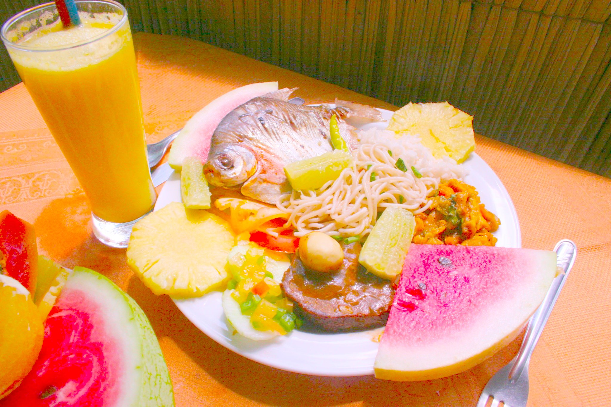 amazon rainforest foods